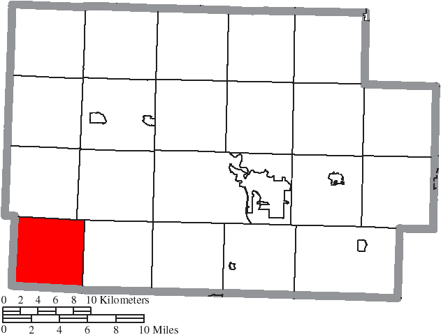 Map of the municipal and township boundaries of Coshocton County, Ohio, United States, as of the 2000 census, with the location of Pike Township highlighted. Township borders are shown only in unincorporated areas in order to differentiate incorporated and unincorporated areas more clearly.